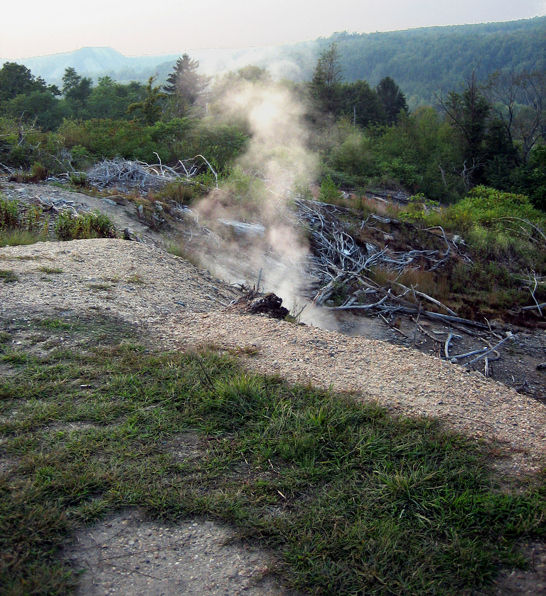 Smoke rising from the ground in Centralia, Pennsylvania, site of an underground coal seam fire.